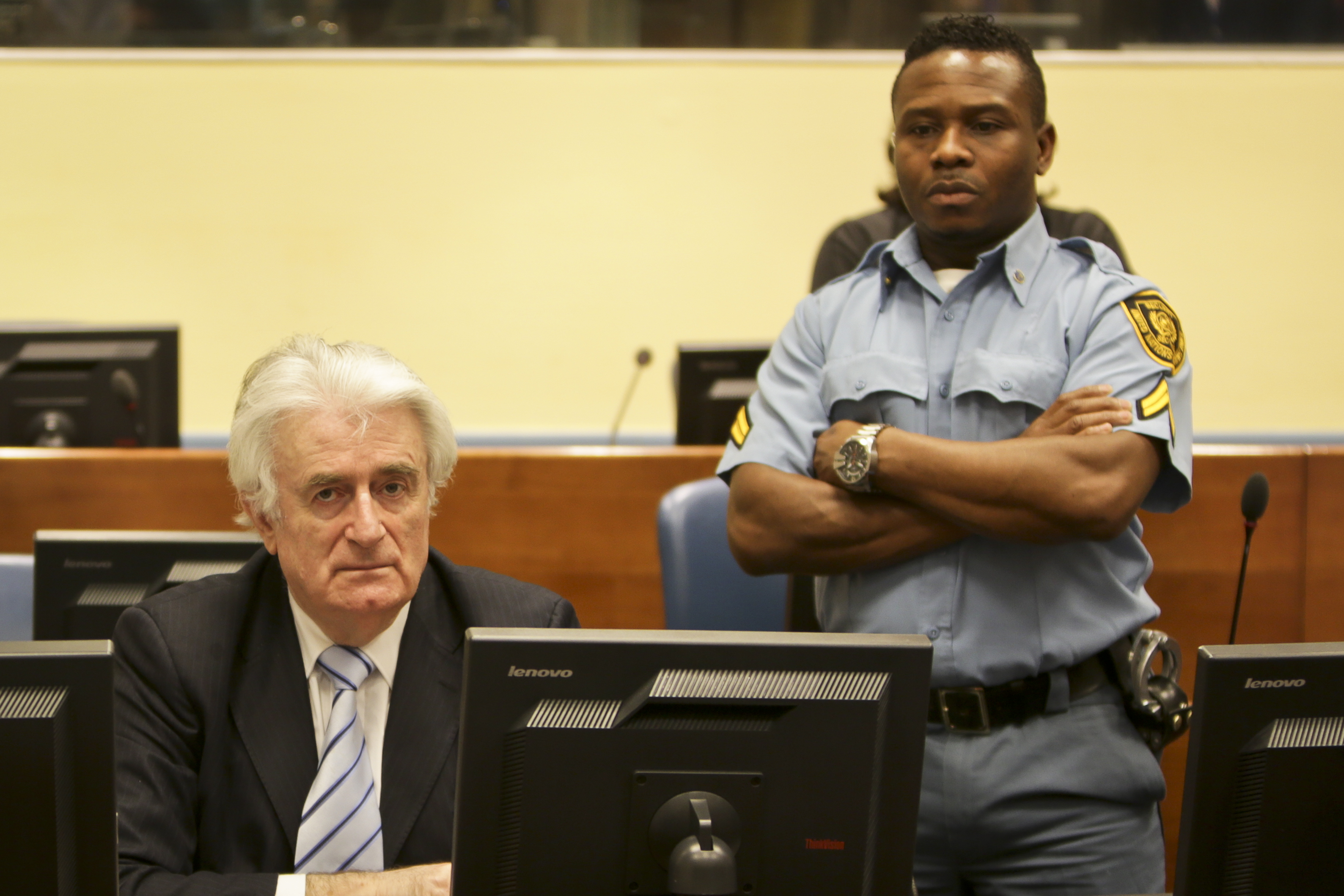 Radovan Karadžić at the beginning of his trial judgement.